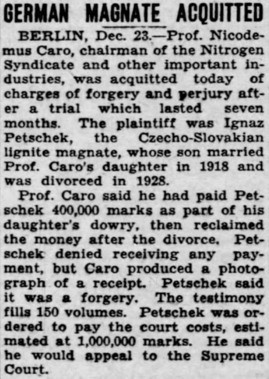 Judgment Petschek vs. Caro (St. Louis Post-Dispatch of St. Louis, Missouri, December 23, 1932)